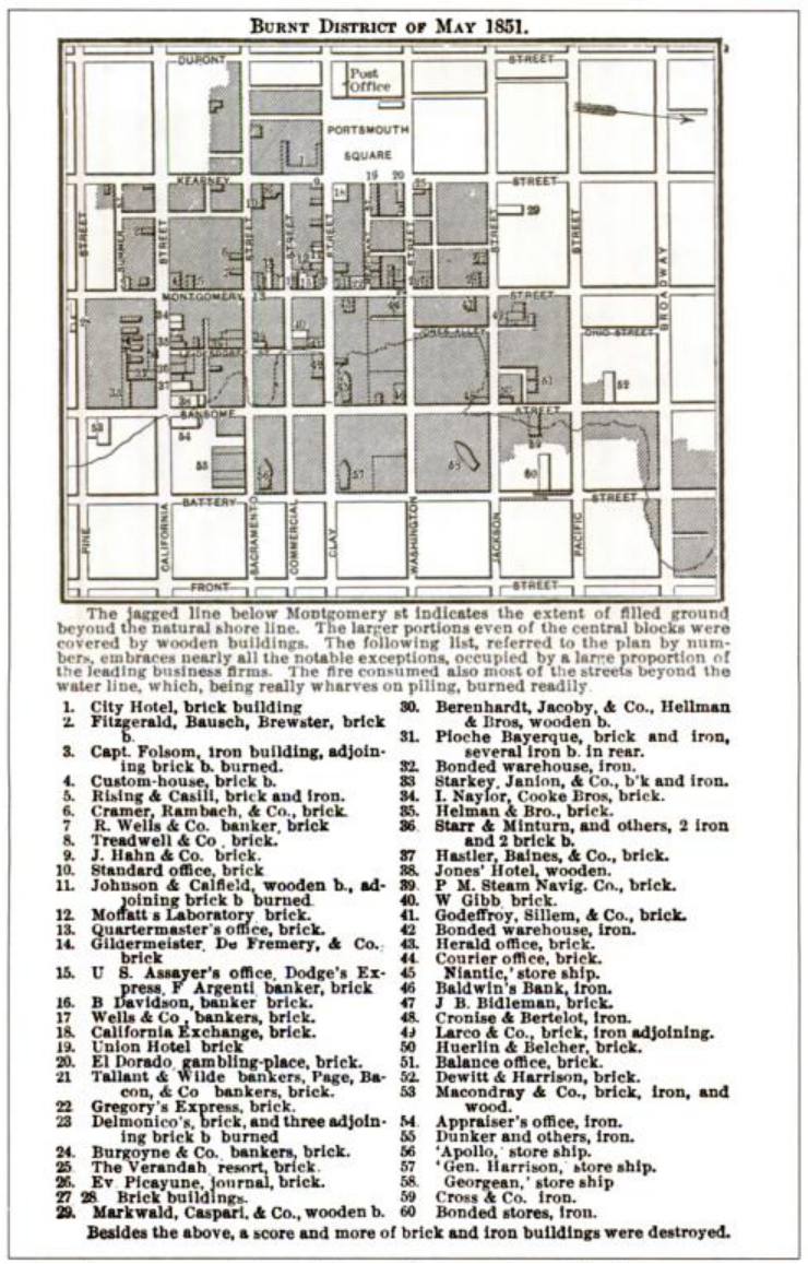 Great fire of San Francisco, May 3-4, 1851, map of burnt district.